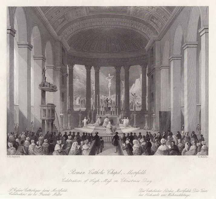 "Roman Catholic Chapel, Moorfields. Celebration of High Mass on Christmas Day" engraved by S. Melville after a drawing by Thomas H. Shepherd, published in London Interiors, 1841. Steel engraved antique print. Size 17.5 x 15.5 cms including title, plus good margins. Altar by the italian sculptor Giovanni Battista Comolli